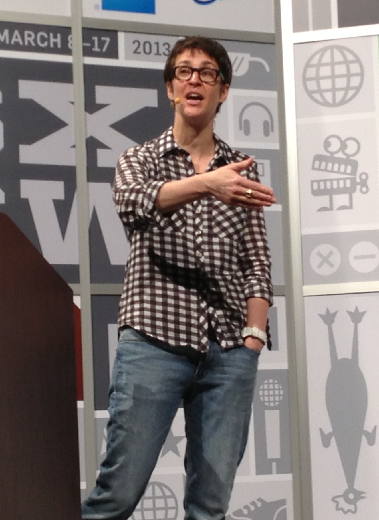 Rachel Maddow in Austin, Texas, on March 10, 2013. Photo by Cole Camplese (downloaded from Flickr; cropped; original file here).